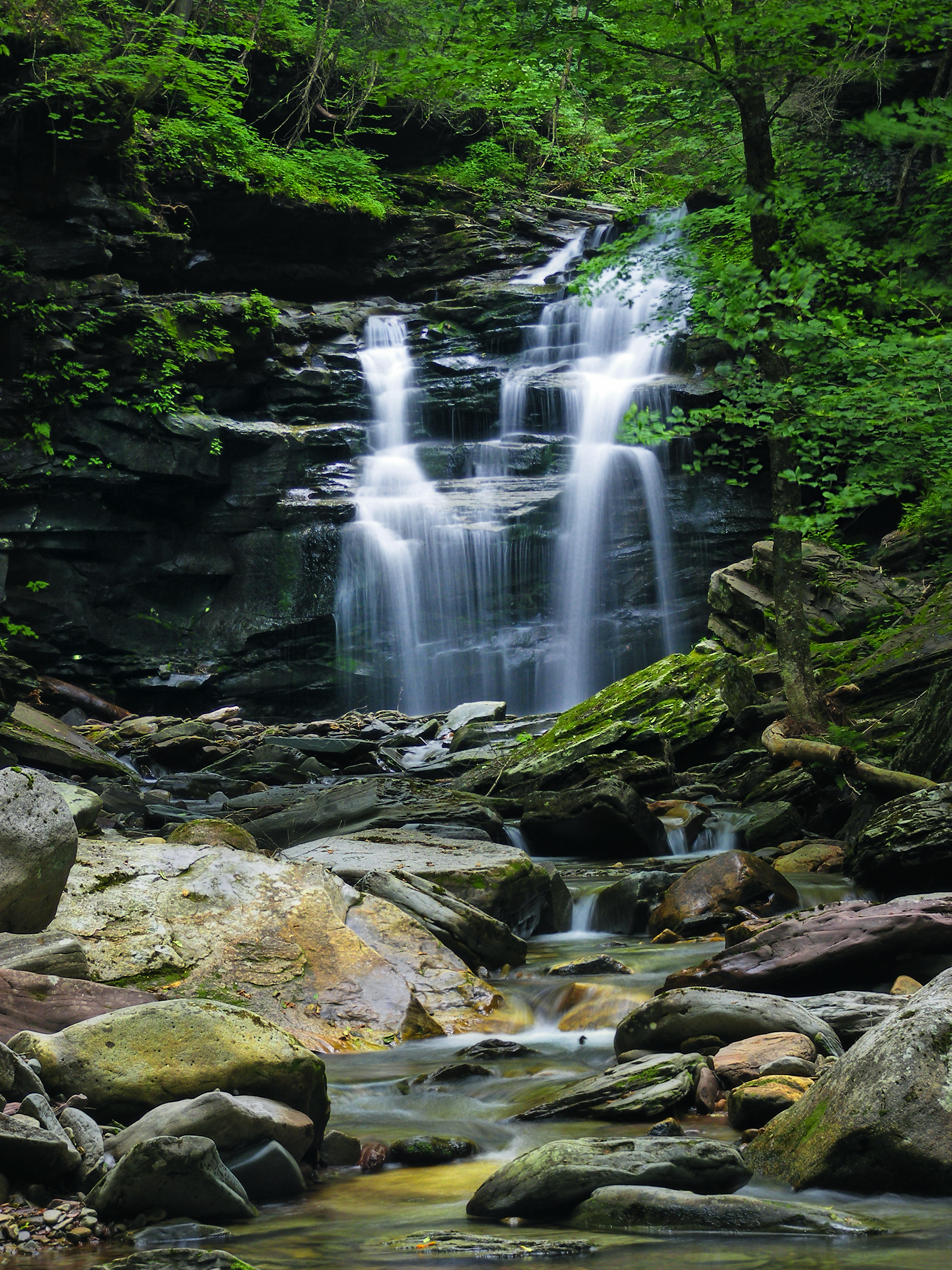 Big Falls, Heberly Run, Sullivan County, within State Game Land 13. No trail; access to the falls is only by bushwhacking along steep slopes or fording the stream. The abundant stinging nettle adds to the challenge of reaching this spot.